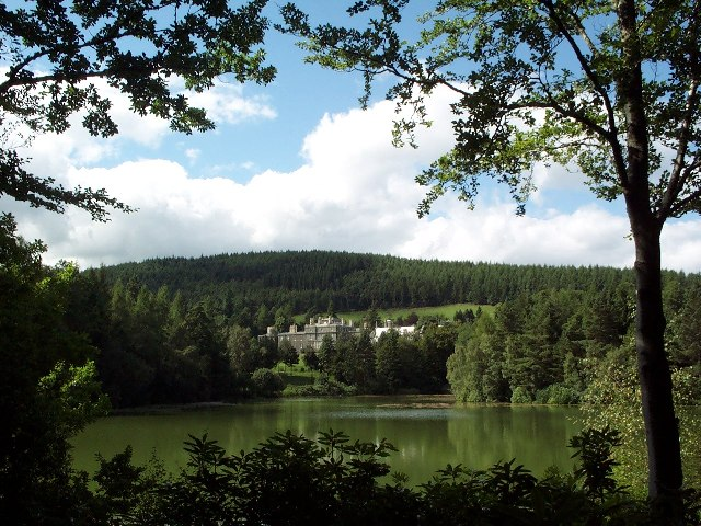 Bowhill.